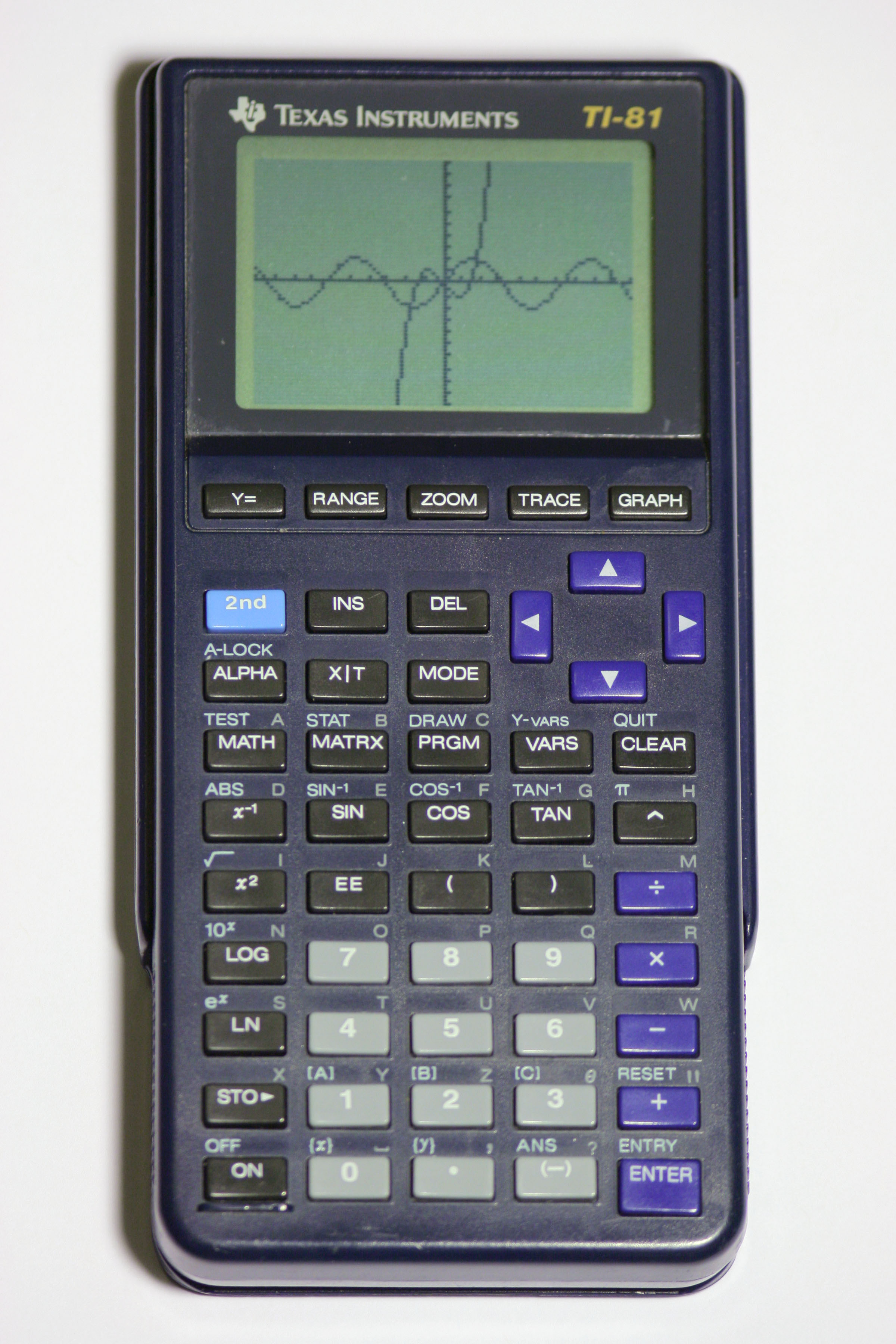 My second-generation TI-81, displaying 2*sin(X) and X^3-2X.